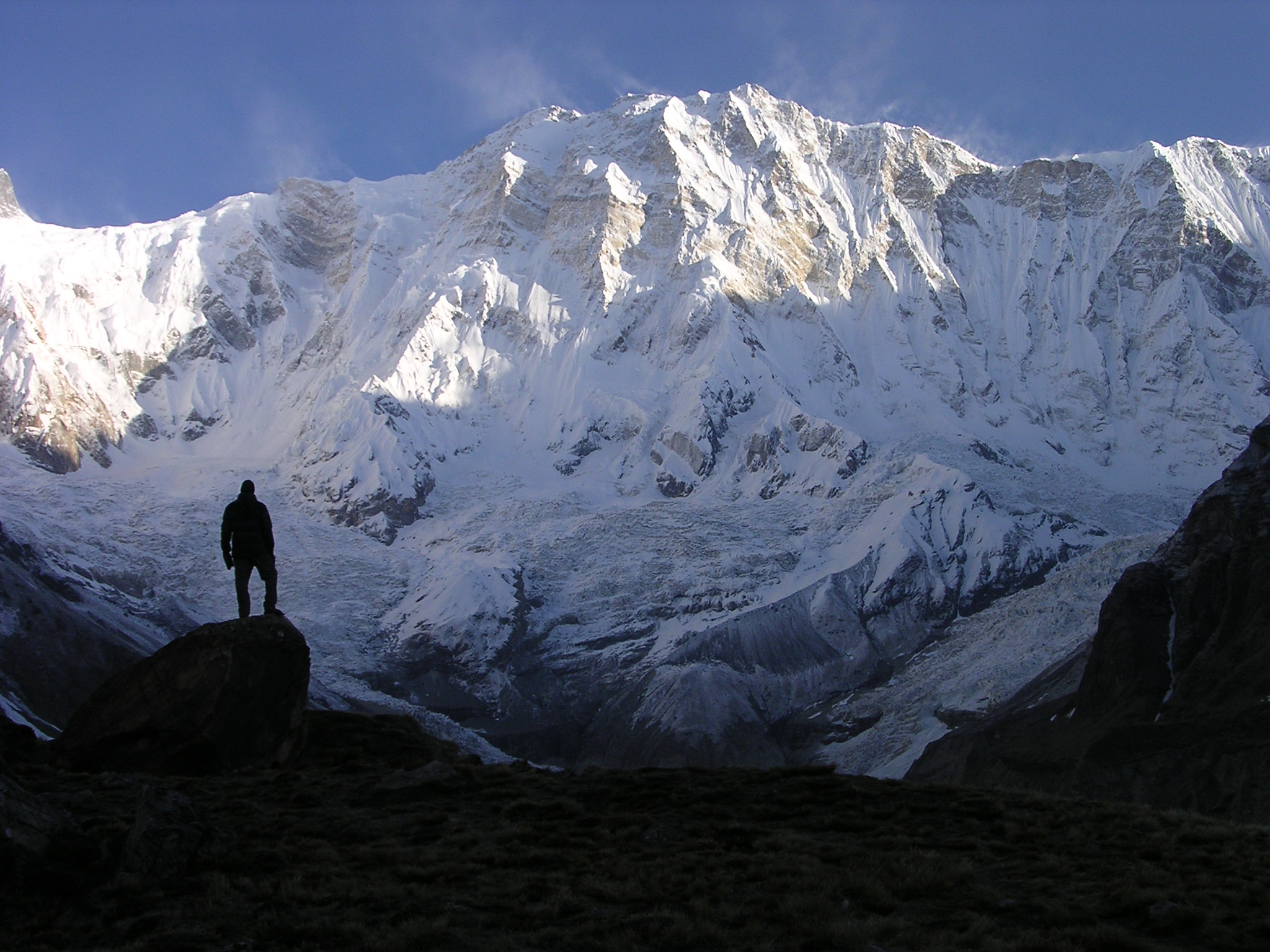 Photo taken by Karim Rizkallah in the Annapurna Sanctuary in the Nepalese Himalayas. Available at